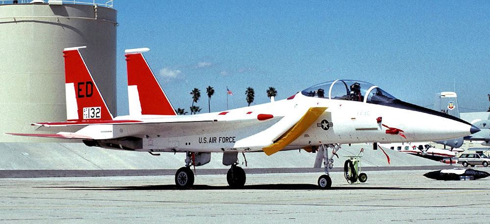 6512th Test Squadron - McDonnell Douglas F-15B-16-MC Eagle 76-0132